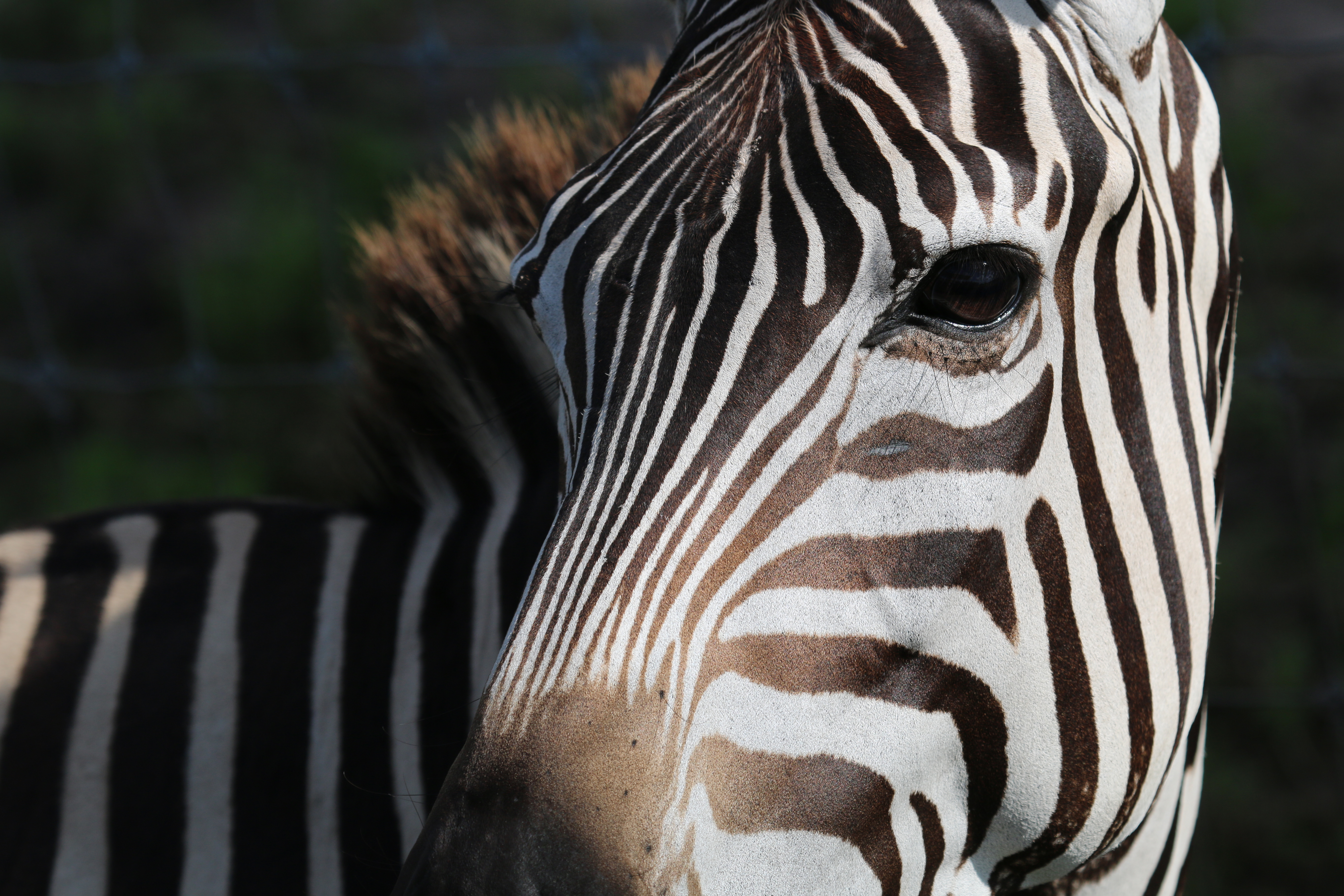 Grant’s zebra at Safari Wilderness in Lakeland, Florida.